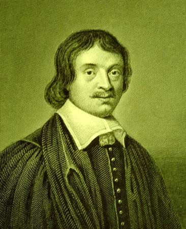 19th cent. depiction of Robert Leighton, Archbishop of Glasgow